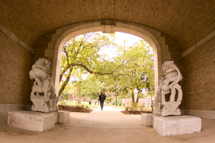 Interior shot of the archway connecting Neff Hall and Walter Williams Hall at the Missouri School of Journalism in Columbia, Mo.